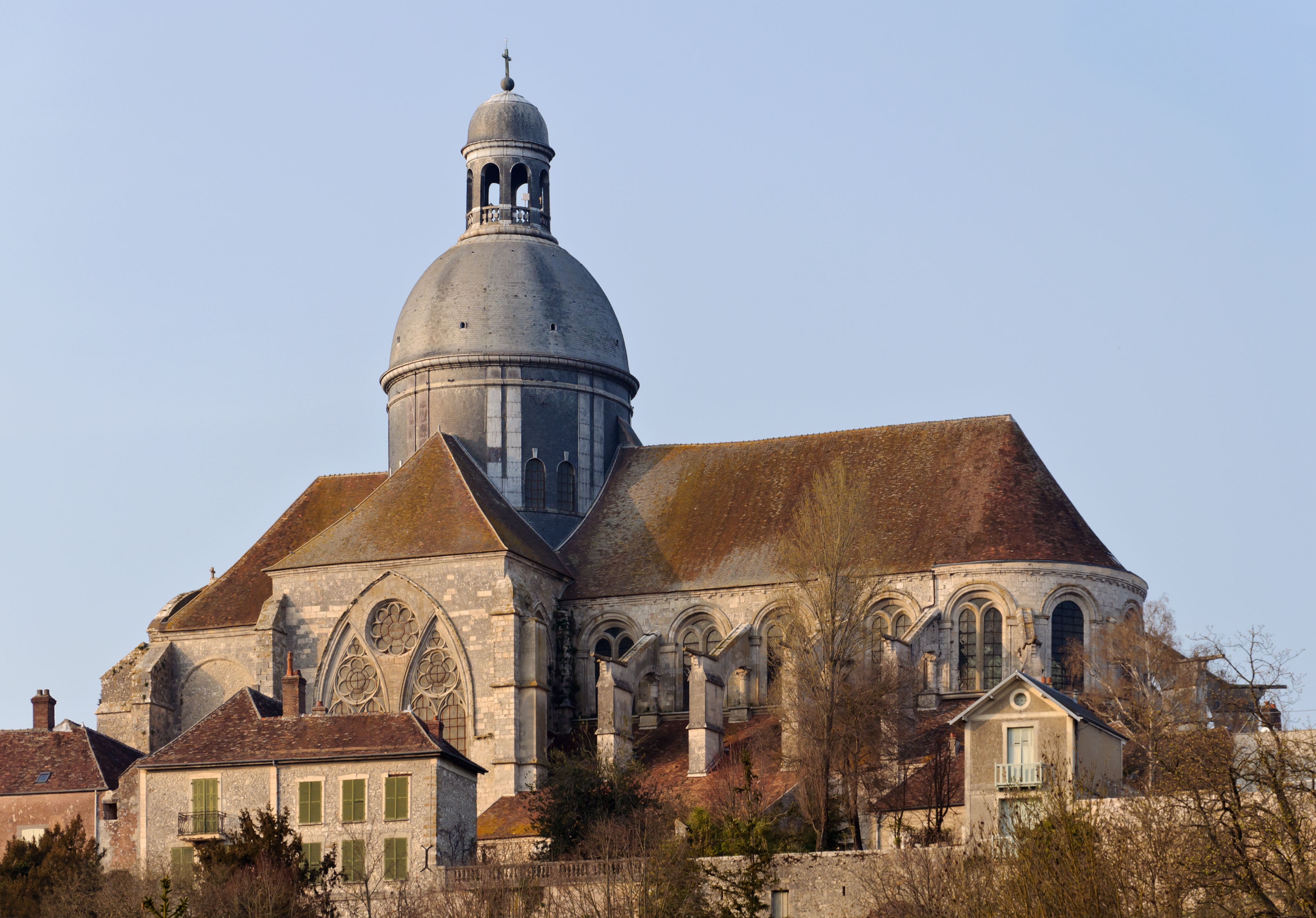 Provins, Seine-et-Marne, France: Saint Quiriace Collegiate Church in the Upper Town; apse and south transept, in the end of the afternoon. .